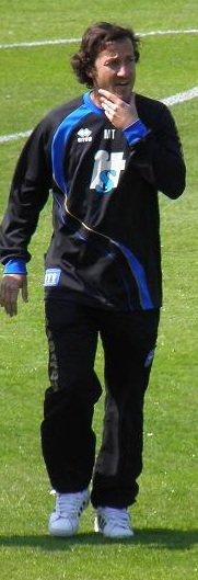 Photograph of Mauricio Taricco